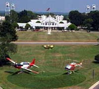 NAS Whiting Field Picture